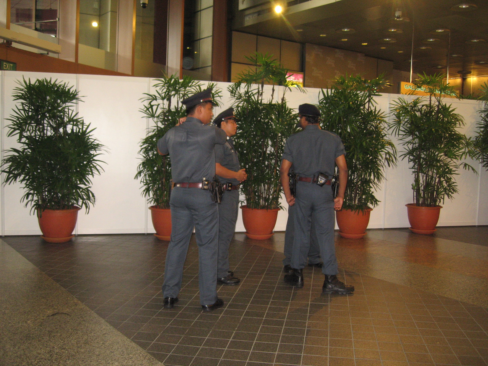 CISCO police at Suntec City during Singapore 2006.